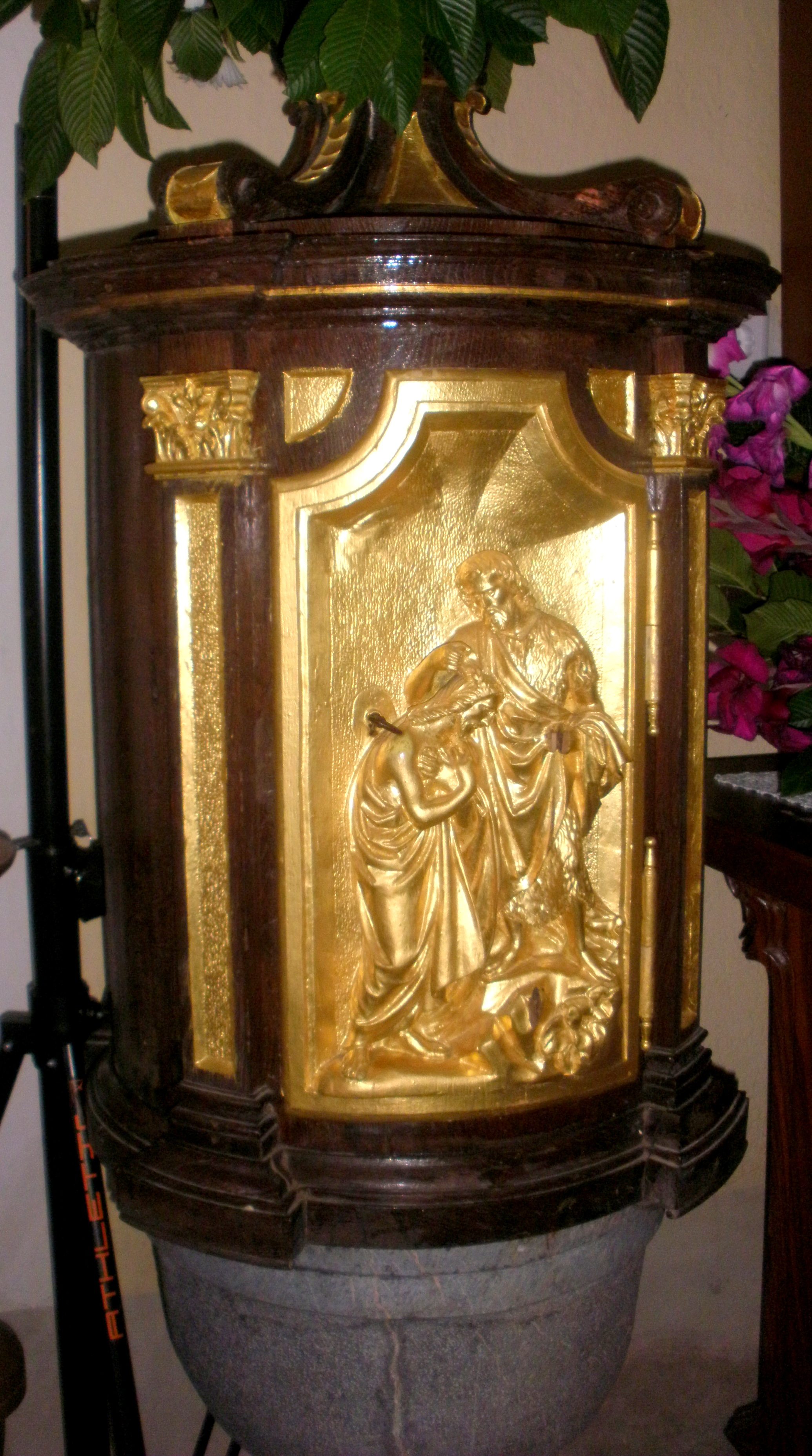 Baptistery in church of Maria Nives on Gora near Sodražica